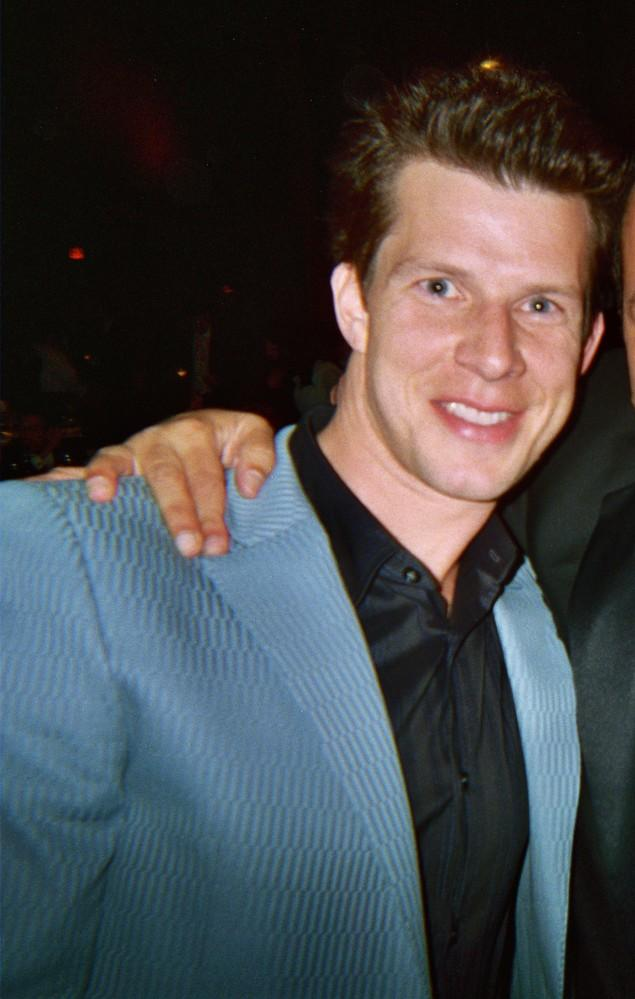 Actor Eric Mabius at 2007 GLAAD Awards.